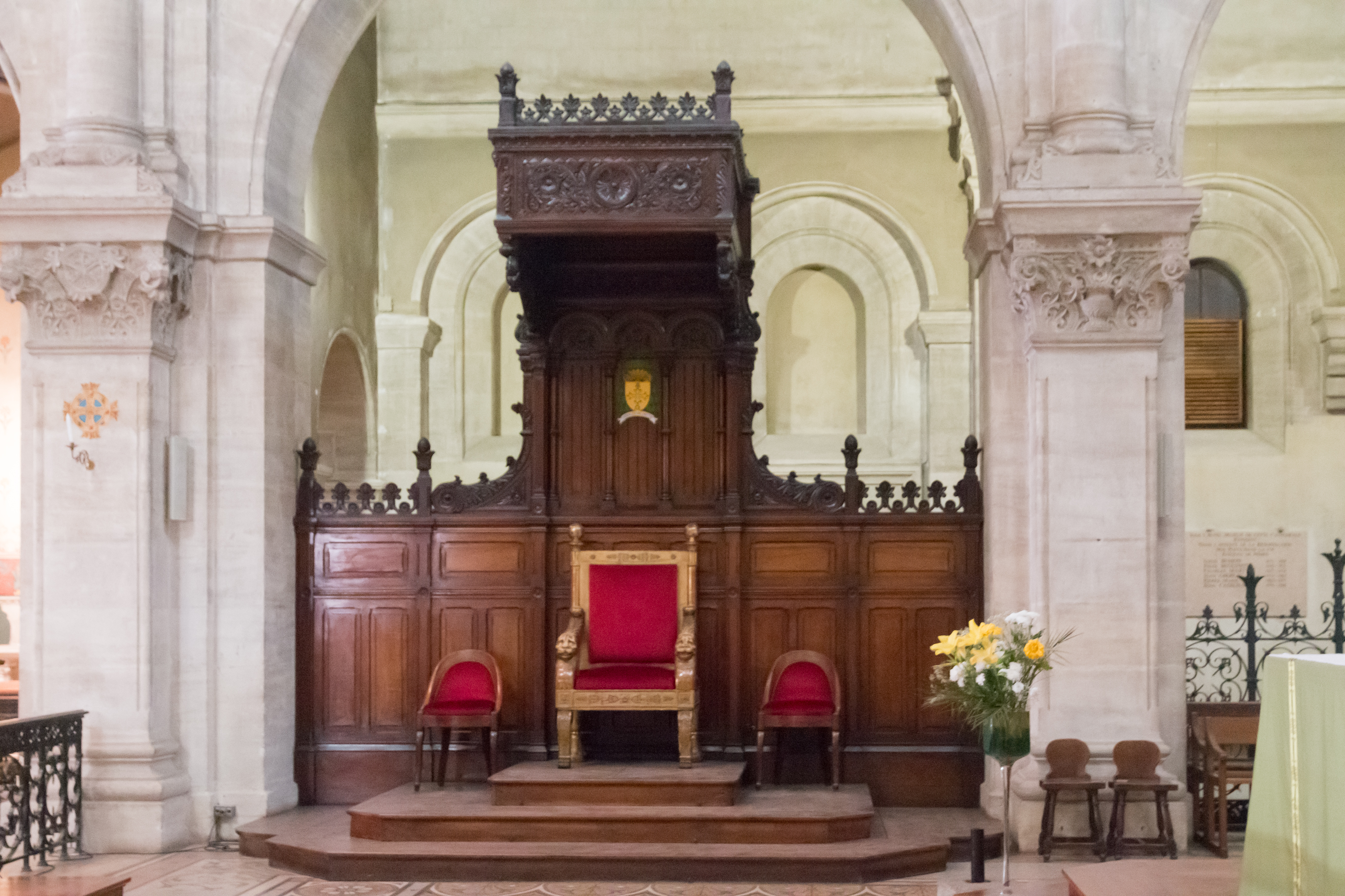 Dais of wood and Episcopal seat in golded wood